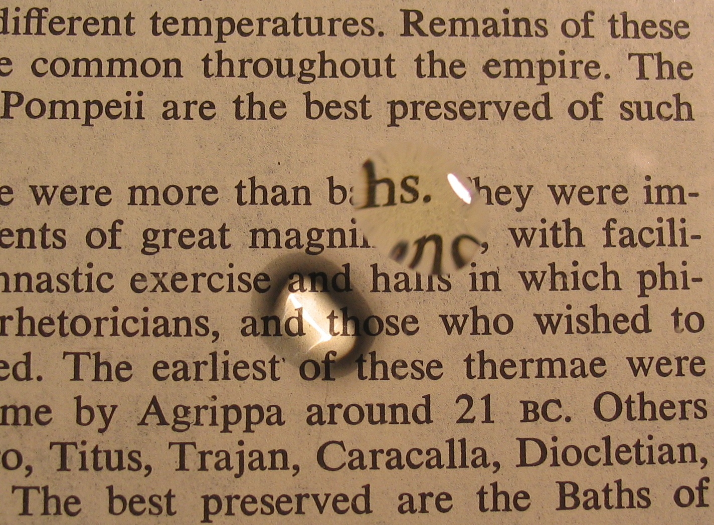 This picture shows the magnifying and the light collecting effect of a drop of oil. This drop is on a glass plate held in a short distance above a text. Picture taken (25 Dec 2005) and uploaded by Roger McLassus.